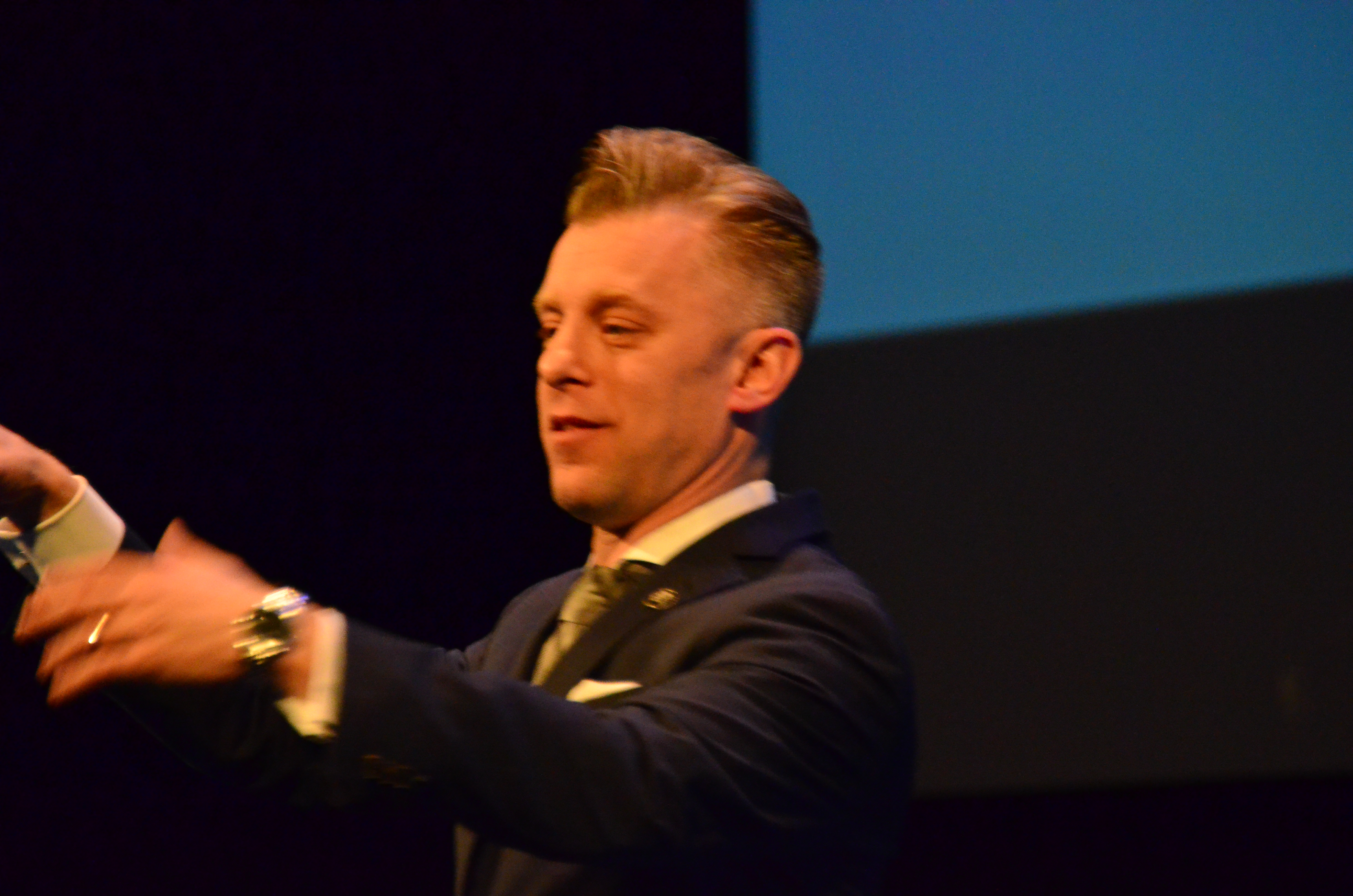 Leigh Heyman speaking at a conference